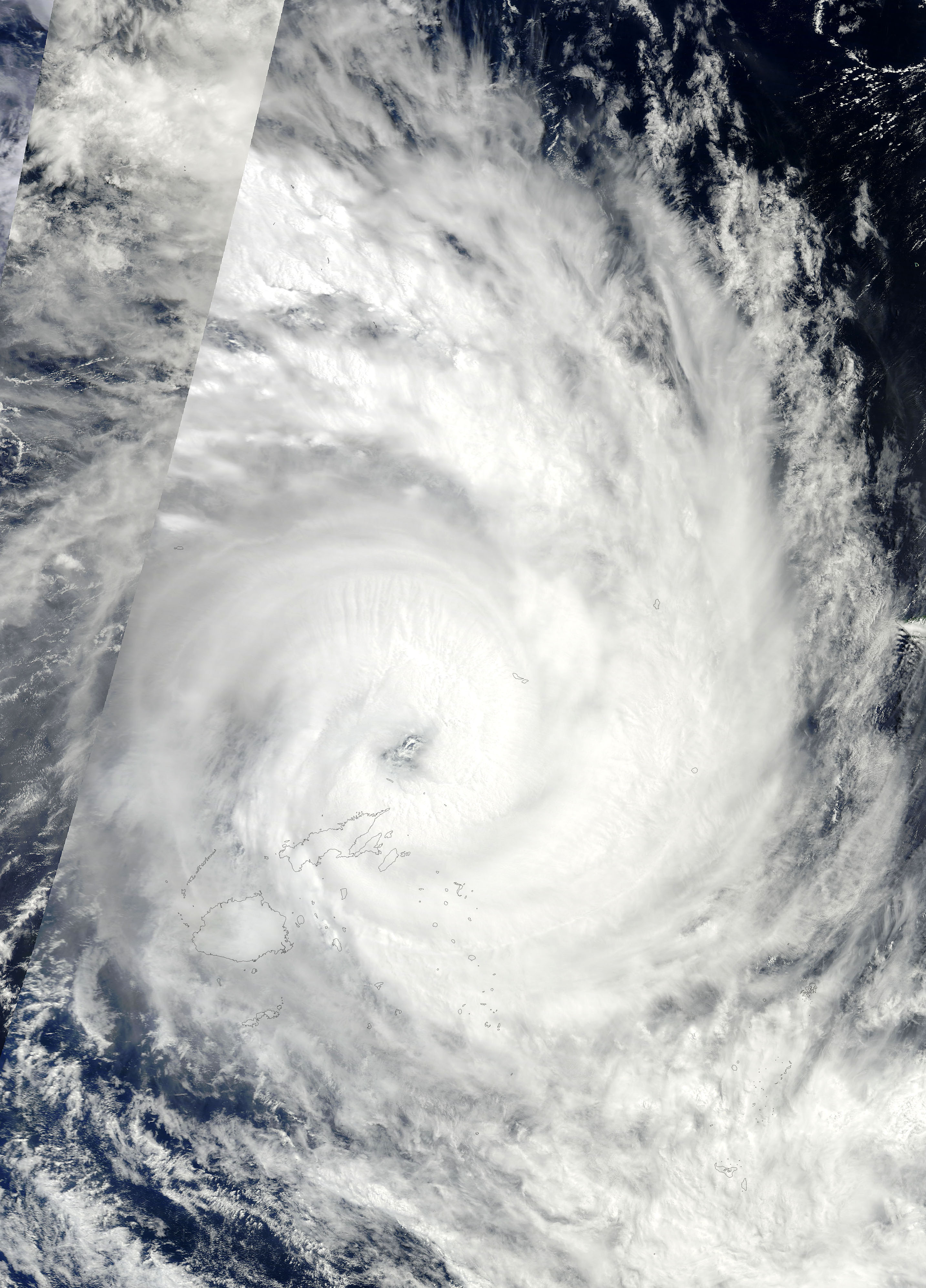 Tropical Cyclone Tomas on March 14, 2010.